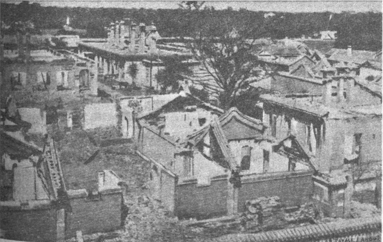 Beijing in 1900 near Legation Quarter